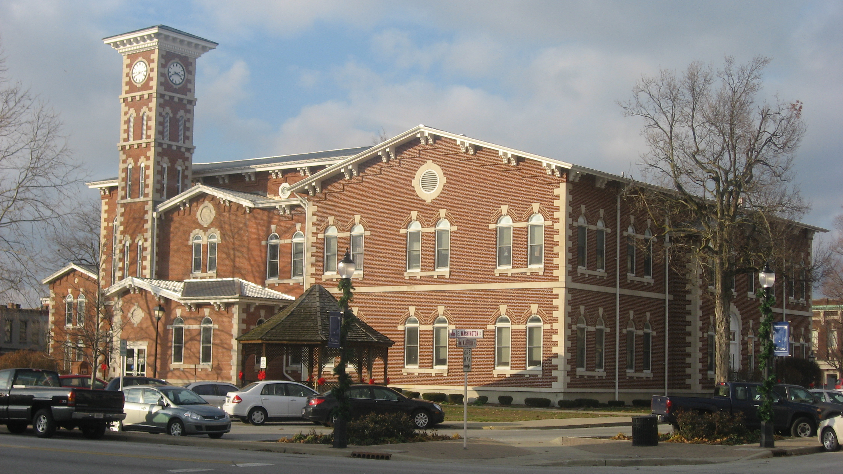 Eastern side and front of the Morgan County Courthouse, located on Courthouse Square in downtown Martinsville, Indiana, United States. Built in 1859, it is listed on the National Register of Historic Places, and it is part of a Register-listed historic district, the Martinsville Commercial Historic District.